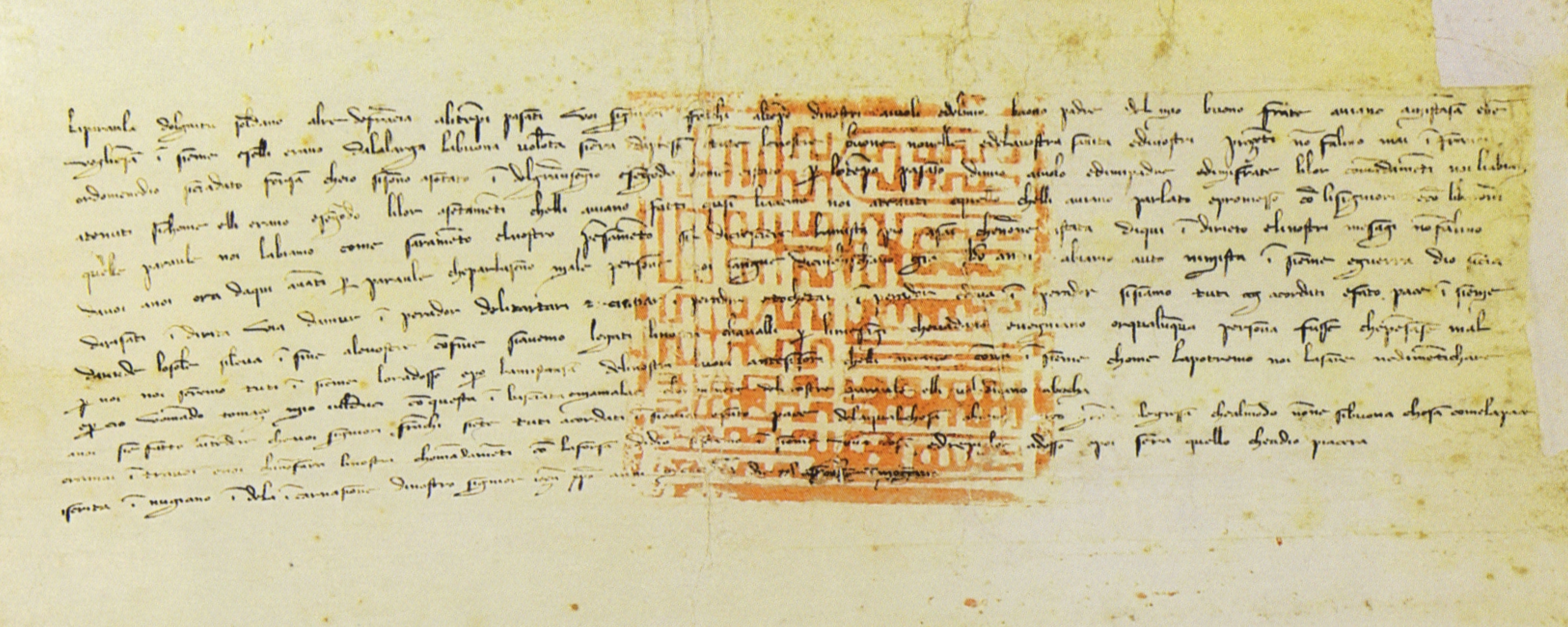 Letter of Oljeitu to Philippe le Bel, 1305. With translation by Buscarel.